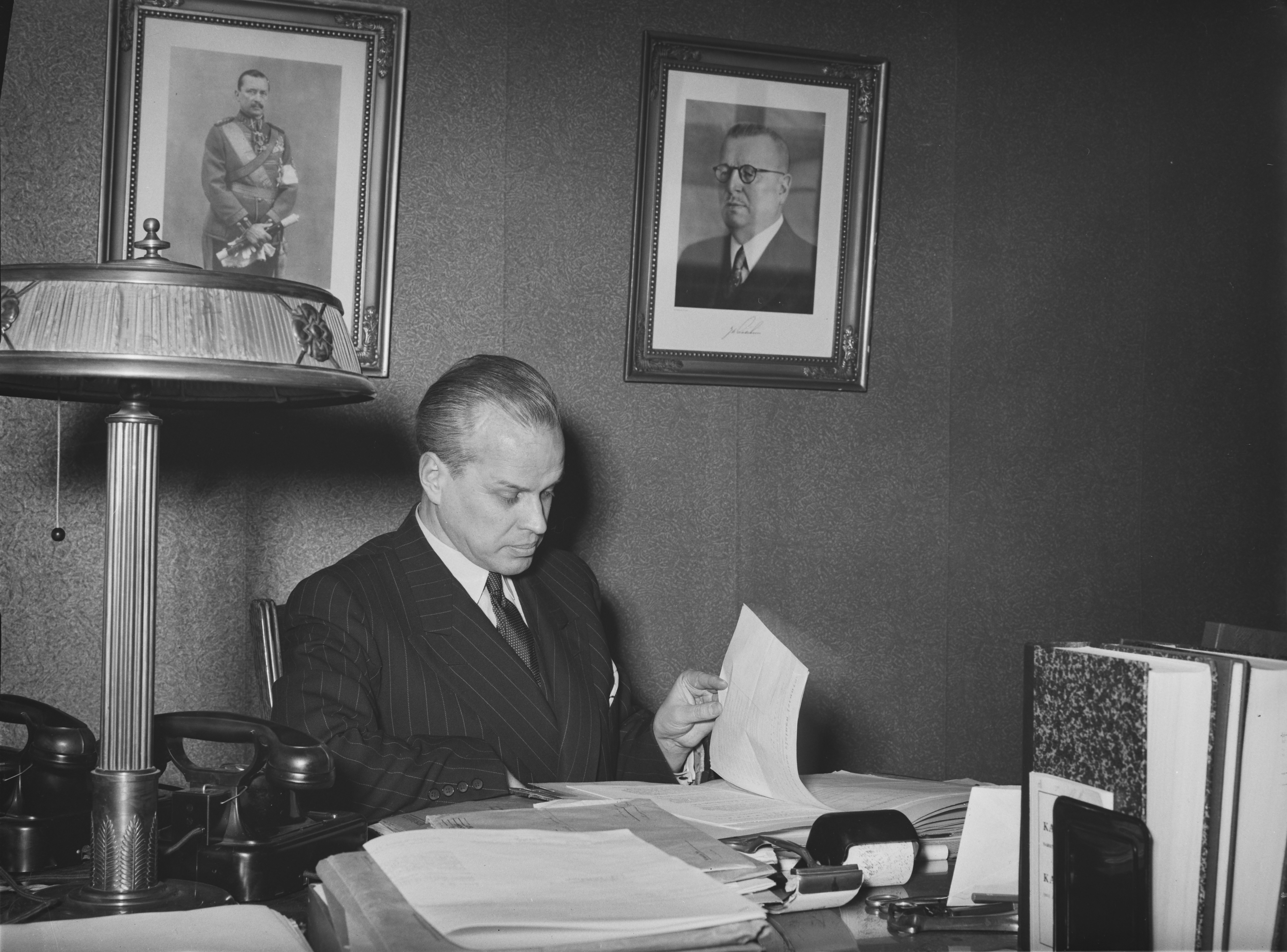 Finnish parliamentarian Tuure Junnila (1910–1999) of National Coalition Party.